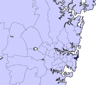 Locator Map Waverley lga sydney.png Based on Image:Ku-ring-gai sydney.png by User:Randwicked.